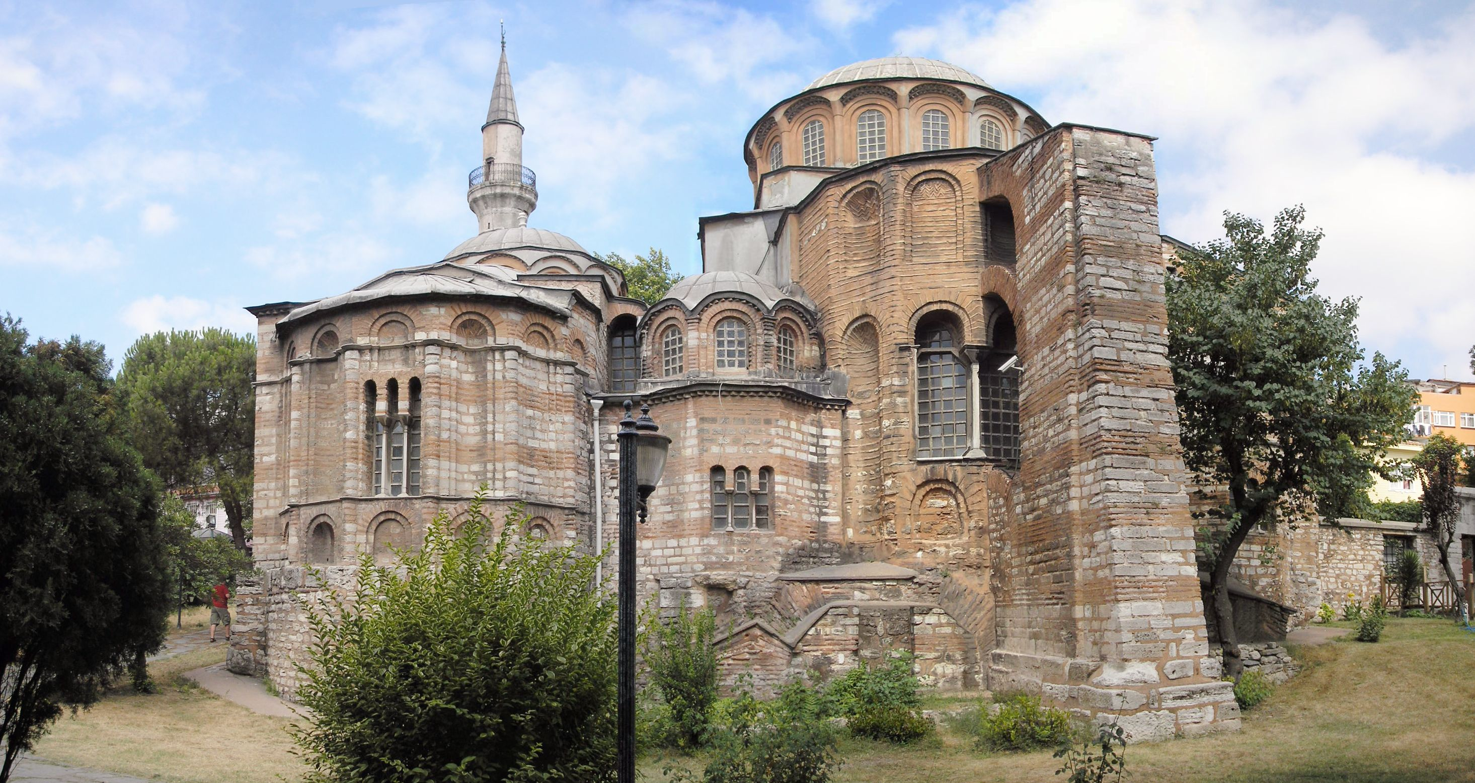 Exterior of the Chora Church in Istanbul, today a museum. It is famous for it Byzantine mosaics.